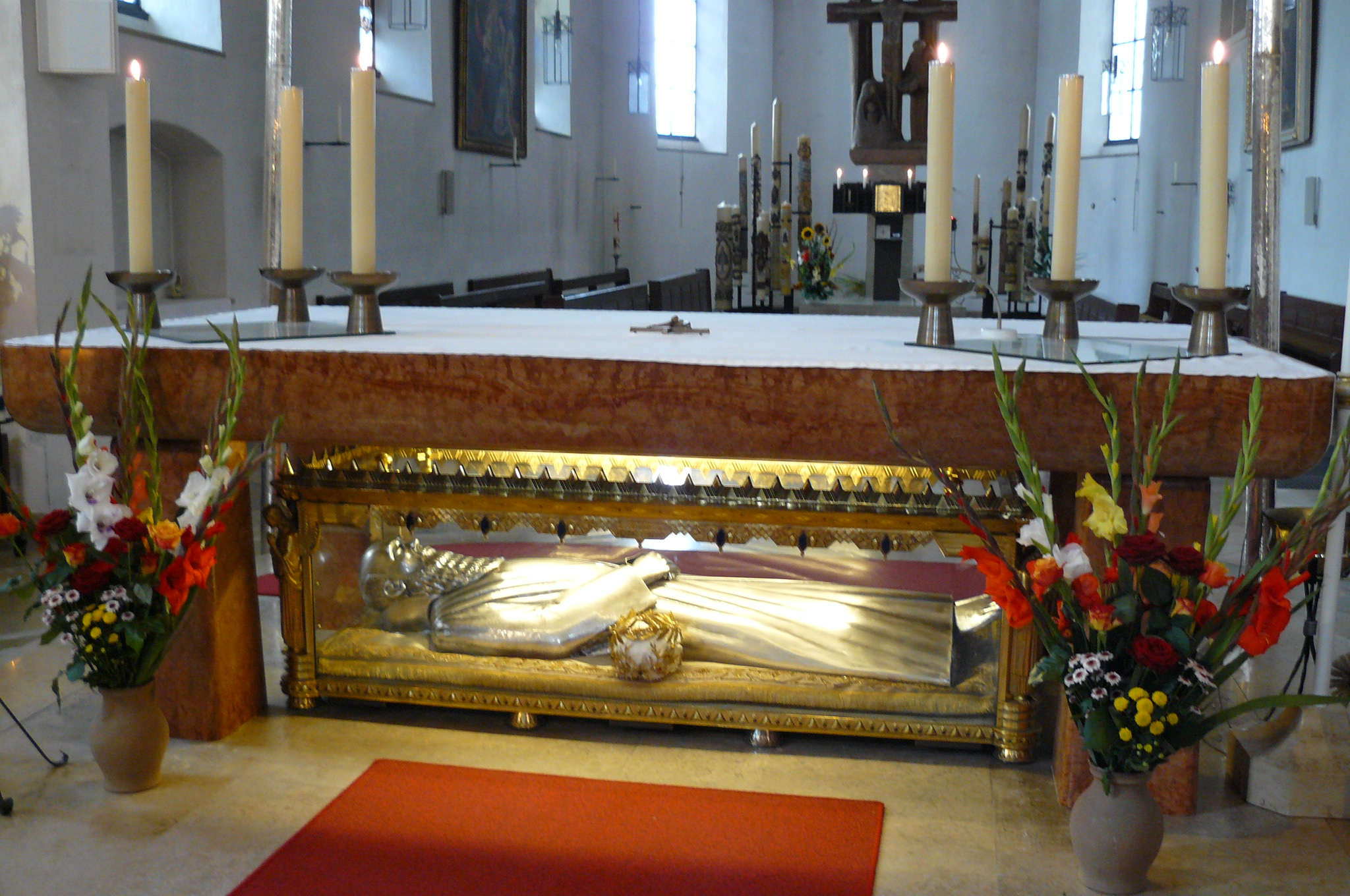 St.Konrad Tomb in Altotting.